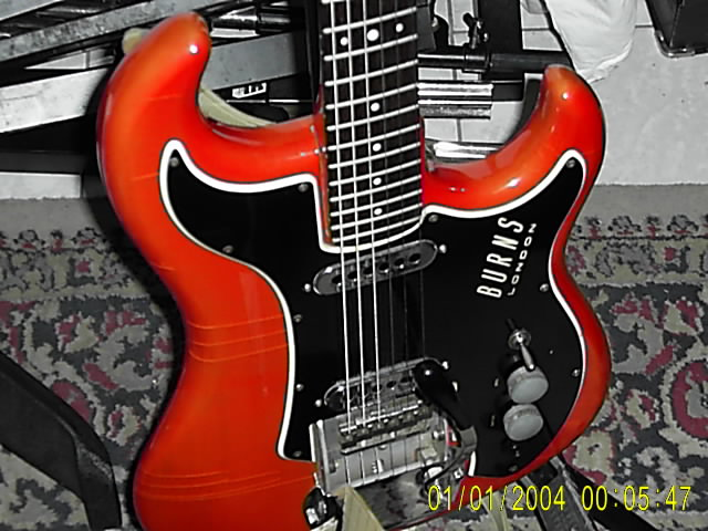 Detail photo of my Burns Shortscale Jazz Guitar. Absolute original mint condition, orangered-clear (!) finish, NO serial number, but inside the body there's a date: 6/1961.